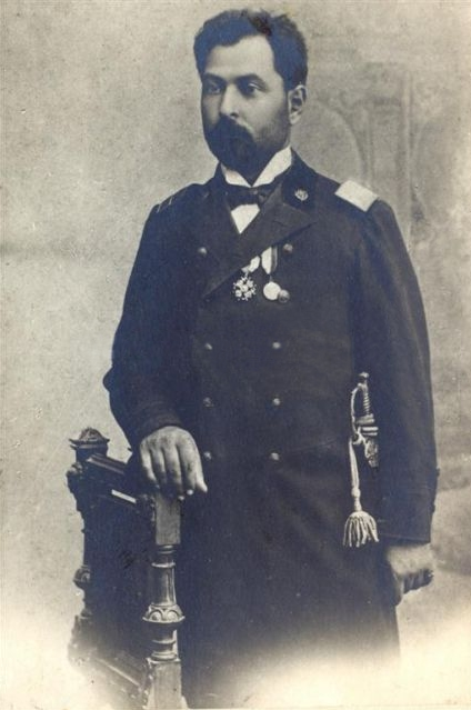 Nariman Narimanov